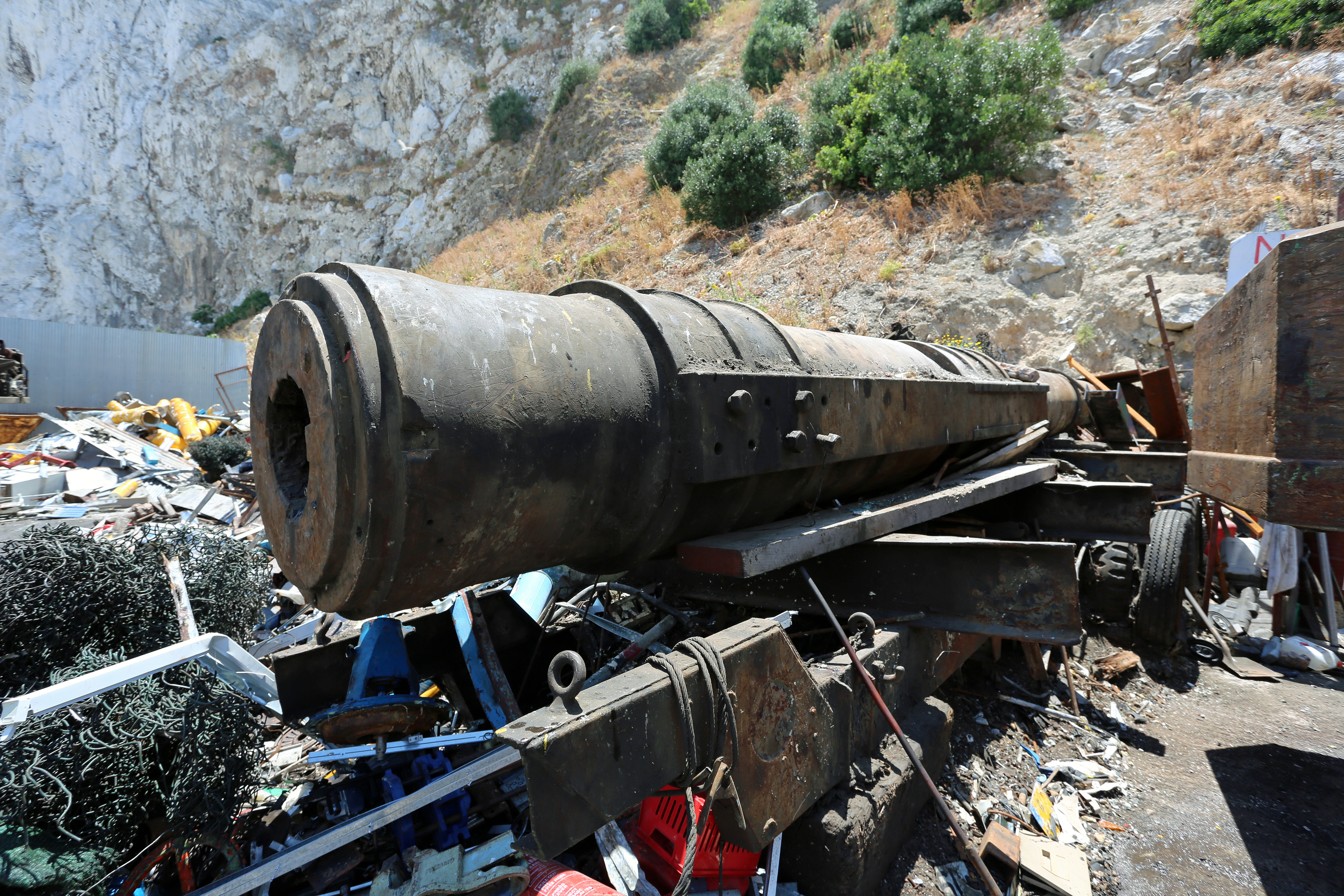 The gun and mount from the Levant Battery in Gibraltar. Photo taken with the kind permission of Metalrok Limited. Levant Battery is located at the southern end of the Upper Rock Nature Reserve, on Windmill Hill positioned below the observation post Fire Control South. Levant Battery received its name from its position below the Levanter cloud which can be a common and localised meteorological occurence in Gibraltar. The position of Levant Battery afforded it an unobstructed field of view when other, higher batteries, such as, Spur, O'Hara's, Lord Airey's, and Breakneck were limited by reduced visibility from the cloud. The Gun barrel and mount pictured here was dismantled and removed from Levant Battery approximately 40 years ago and has been resting on its original trailer at Metalrok scrapyard since then.